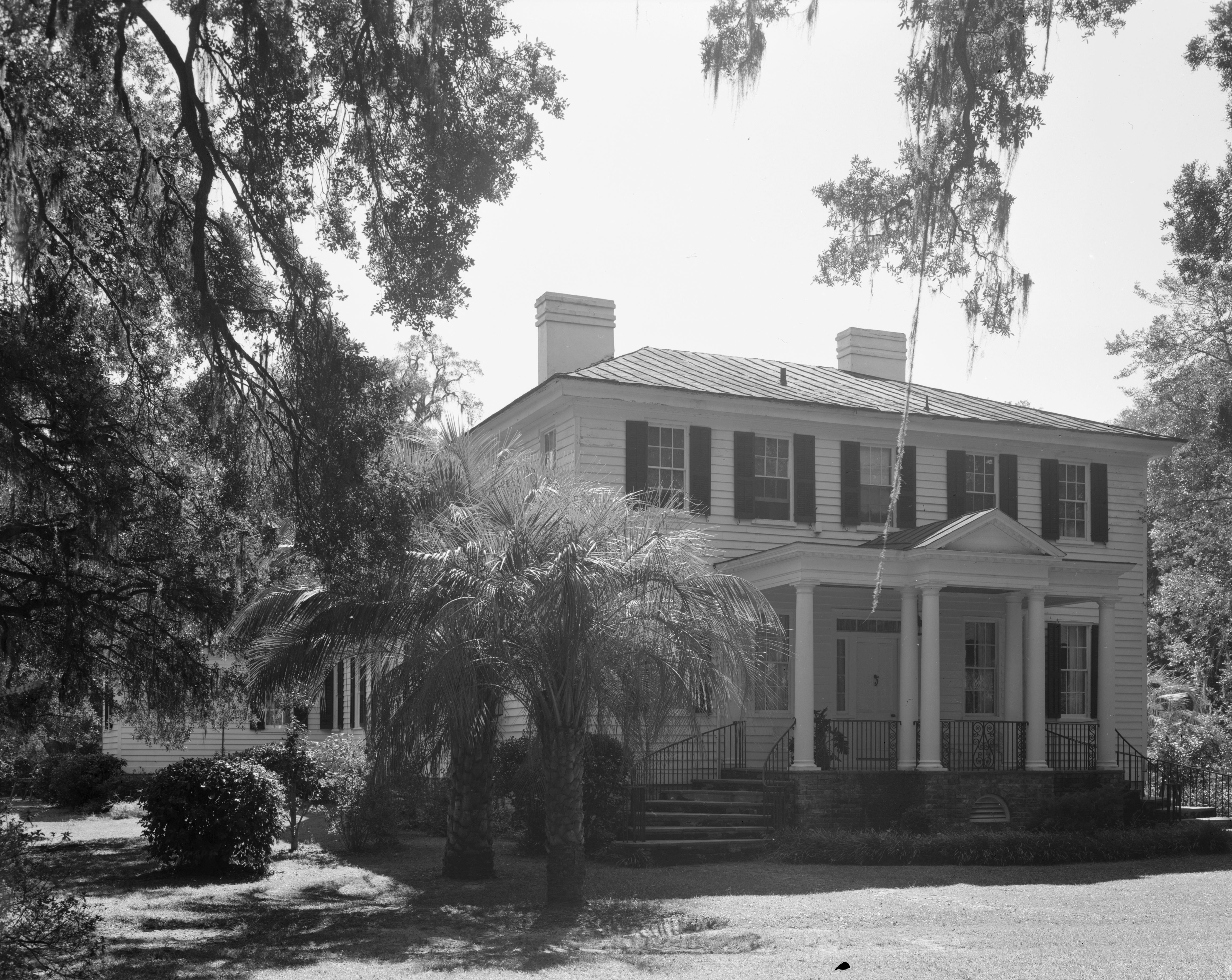 Beneventum Plantation, Road S-22-431, Georgetown vicinity (Georgetown County, South Carolina).